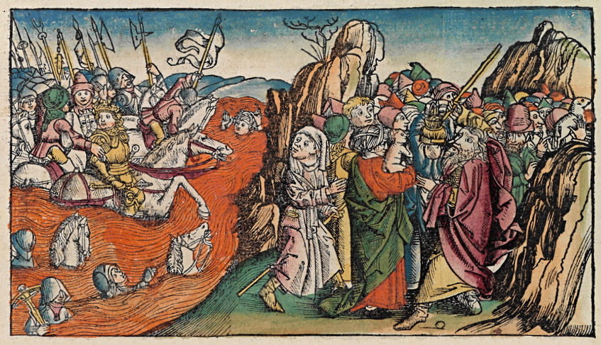 This is a part of a scan of an historical document: Title: Schedelsche Weltchronik or Nuremberg Chronicle